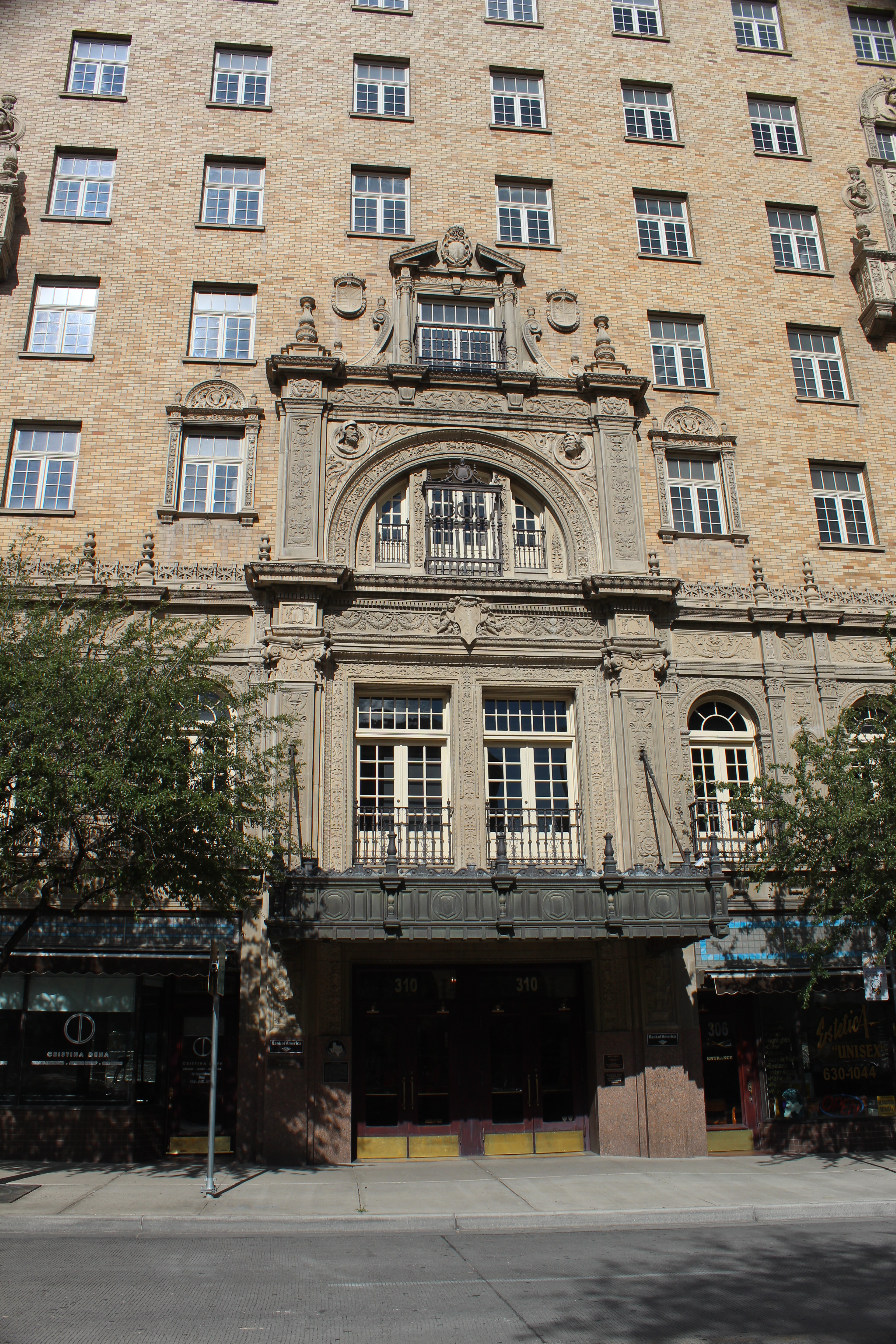 Hotel Cortez, 300 N. Mesa St. El Paso